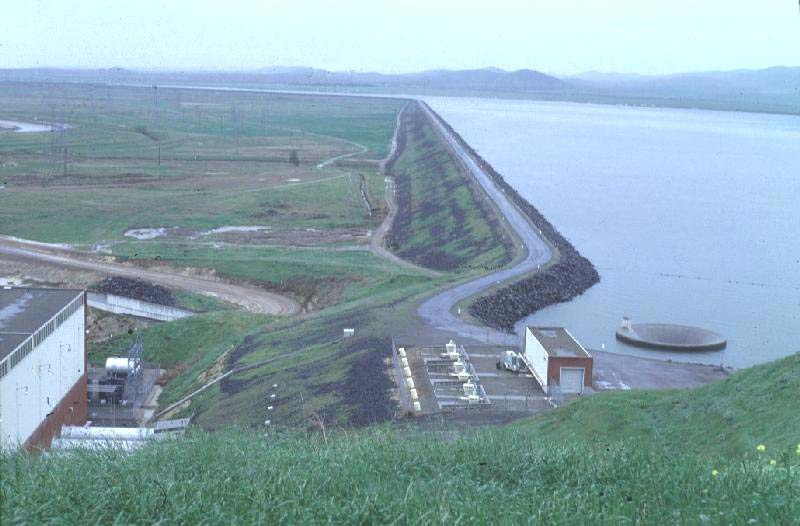 O'Neill Dam on San Luis Creek, creating the O'Neill Forebay for San Luis Dam and San Luis Reservoir — in western Merced County, California. A part of the California State Water Project system infrastructure.